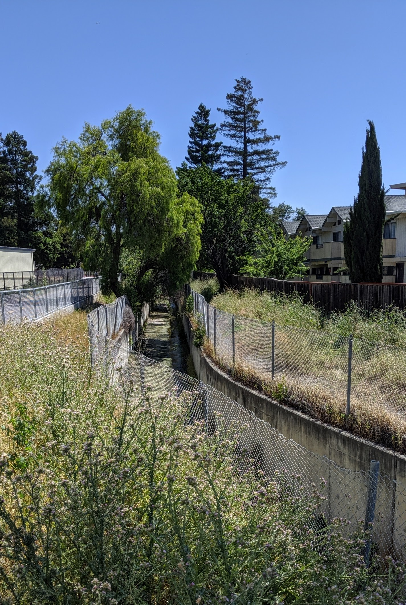 Permanente Creek by Crittenden School, Mountain View, California